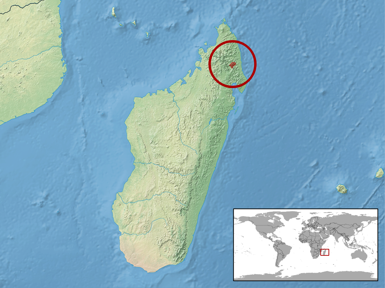 geographic distribution of Calumma peyrierasi (Native: Madagascar)